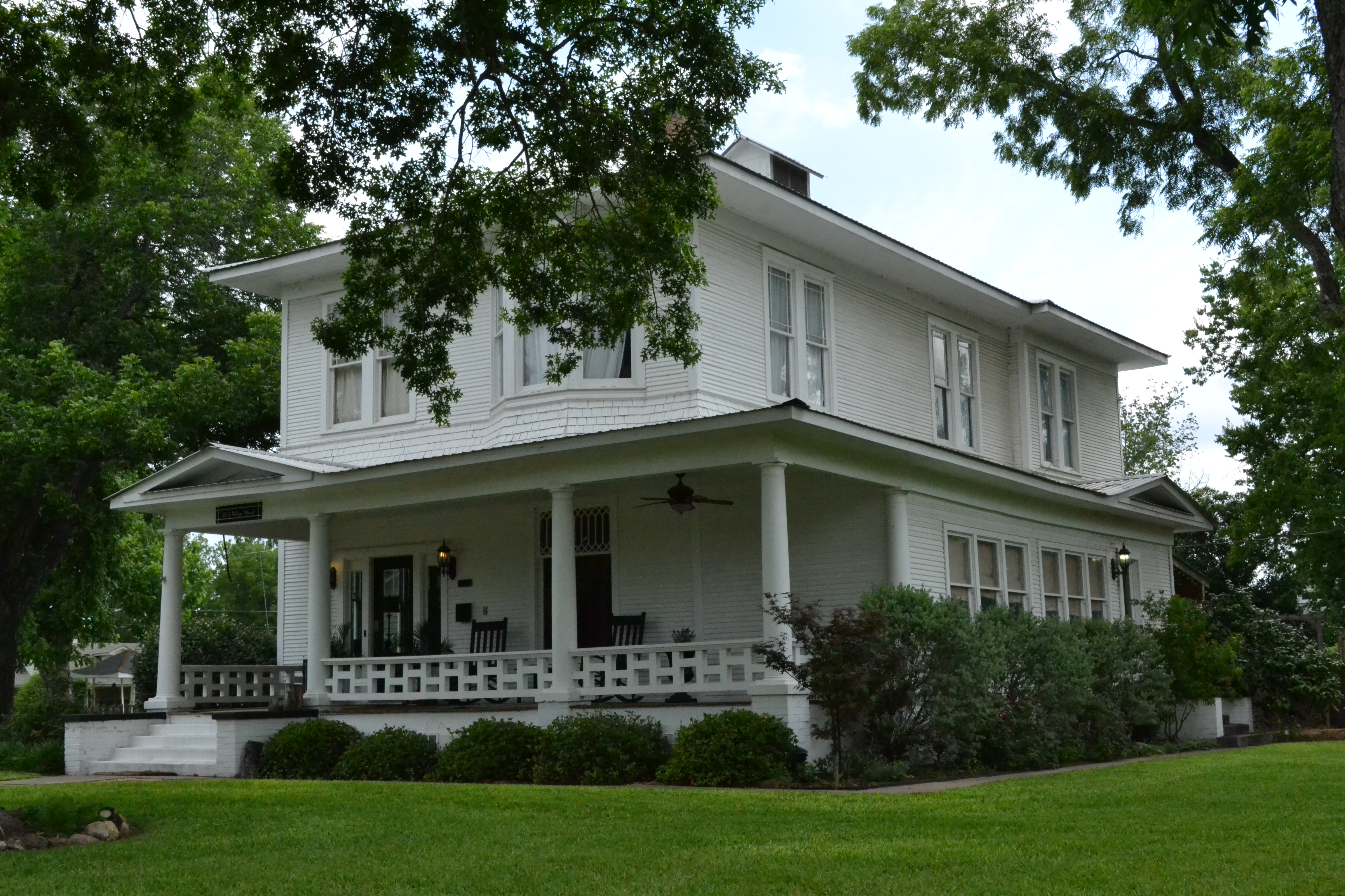 The Richard Strake House at 703 Main Street in Bastrop, Texas. Listed on the National Register of Historic Places.